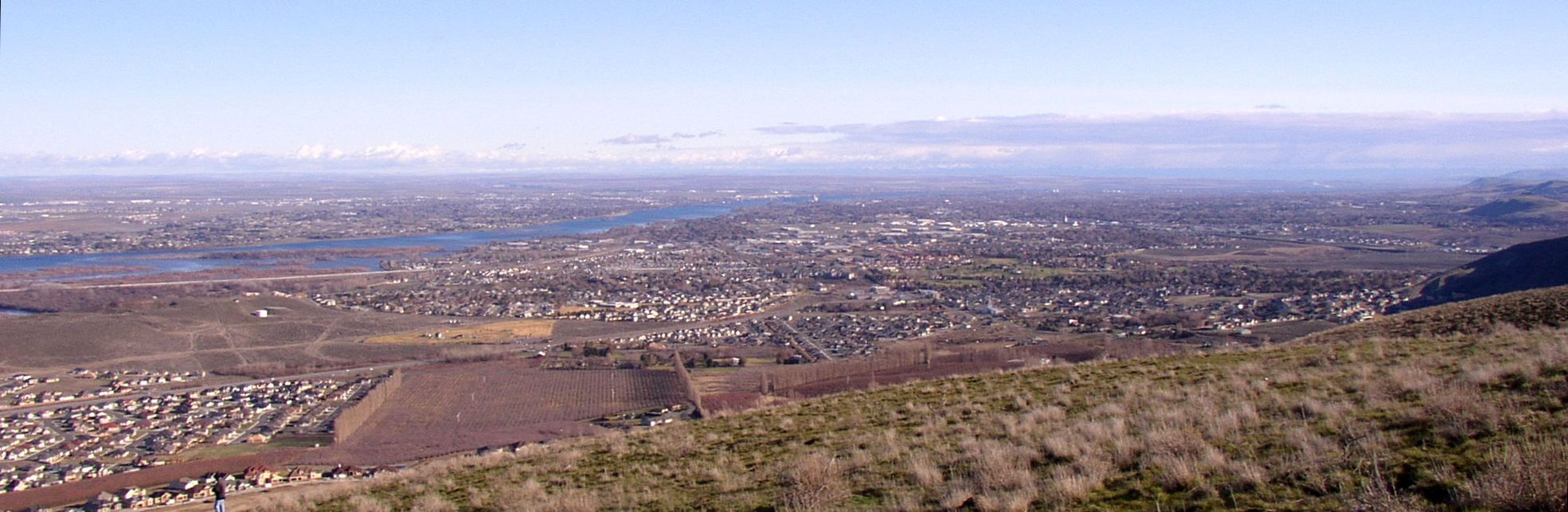 Richland in the foreground, Pasco across the Columbia River and Kennewick to the upper right. These three cities are located in Washngton State, USA. UmptanumRedux 01:35, 1 April 2006 (UTC)